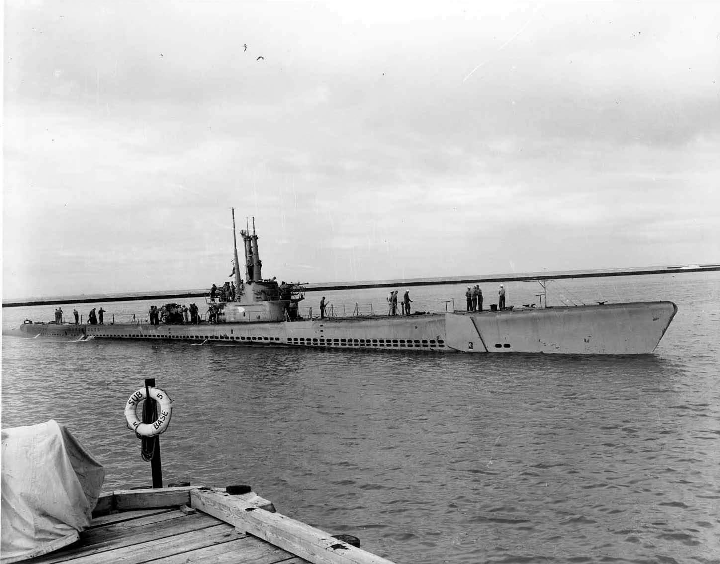 USS_Apogon; Apogon's (SS-308) officers and crew alongside the conning tower as she heads towards dock at Submarine Base 5. U.S. Navy photo courtesy of web site.